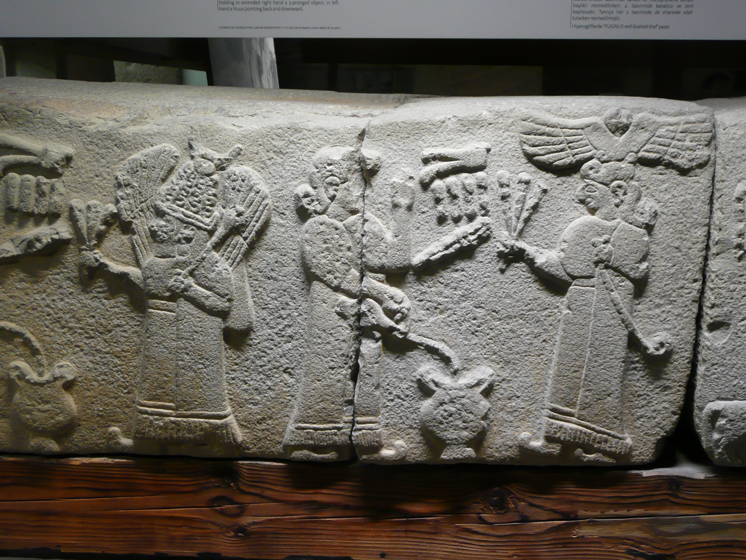 The Museum of Anatolian Civilizations is situated in Ankara, Turkey. It is one of the leading museums in the world for its unique collection of the ancient history of Anatolia.